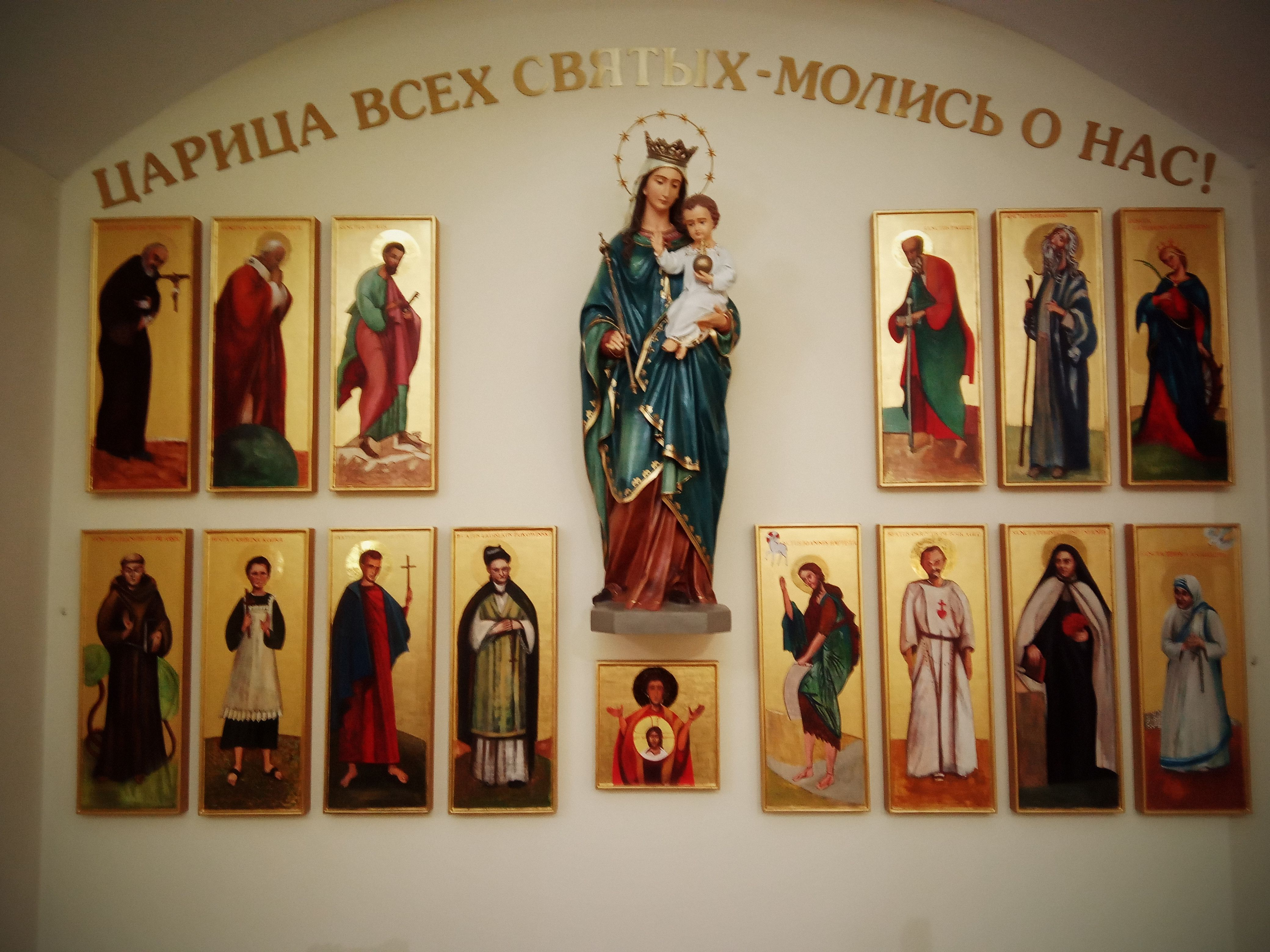 Parafia Świętej Rodziny w Chromtau - ikony świętych